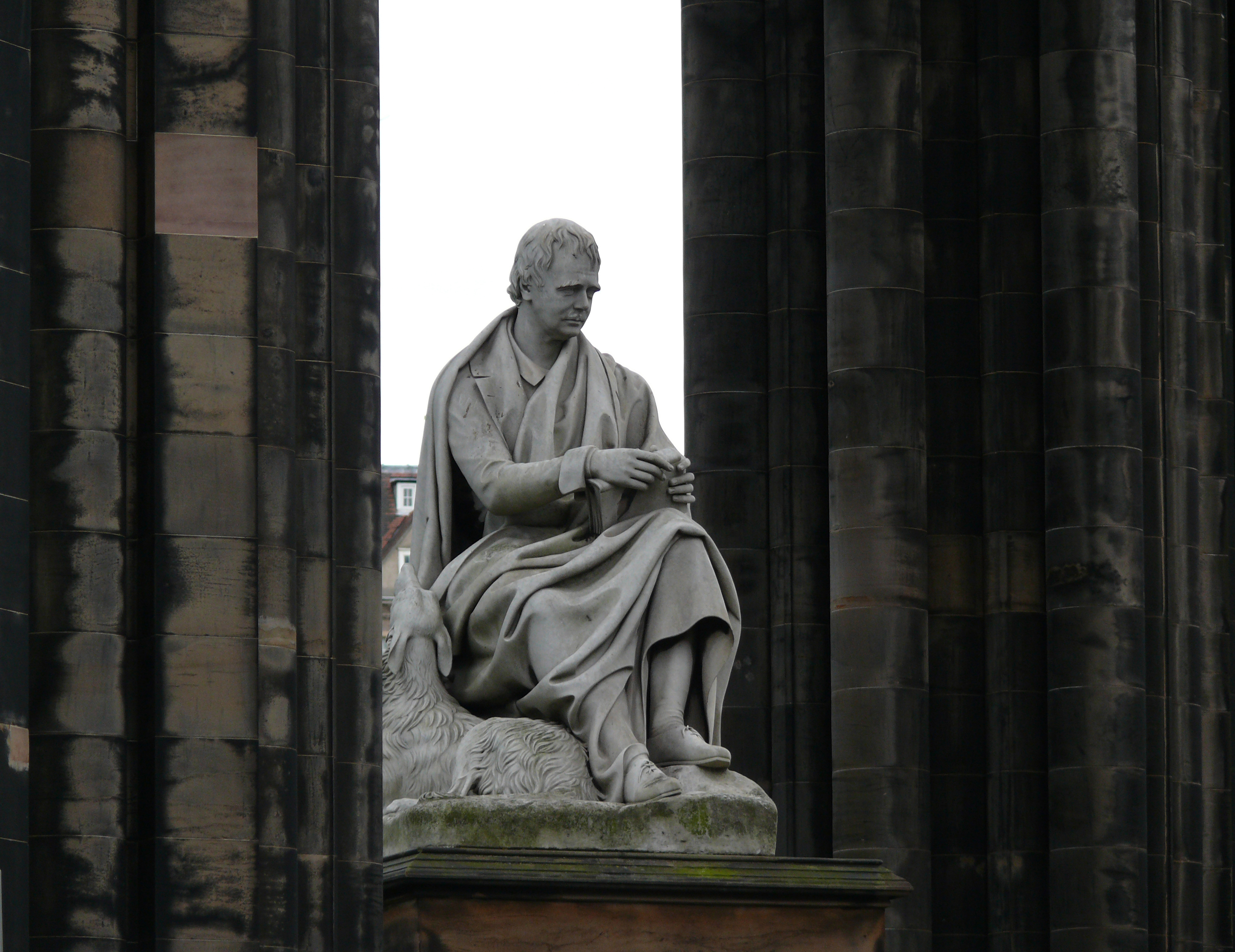 The Scott Monument in East Princes Street Gardens in Edinburgh, a Victorian Gothic monument to Scottish author Sir Walter Scott. John Steell's statue, made from white Carrara marble, shows Scott seated, resting from writing one of his works with a quill pen and his dog Maida by his side.